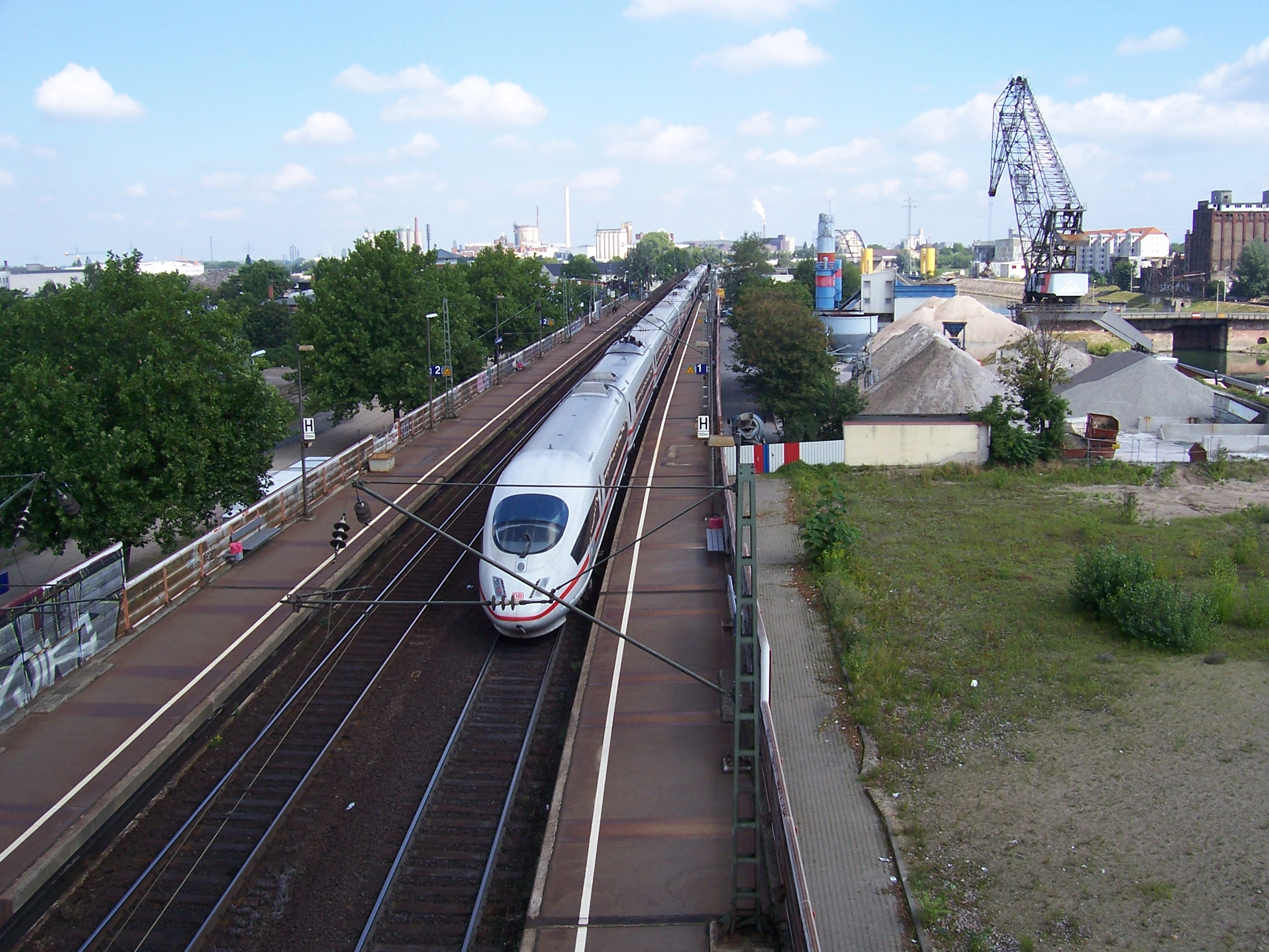 ICE-Train on the "Riedbahn" in Mannheim, Germany